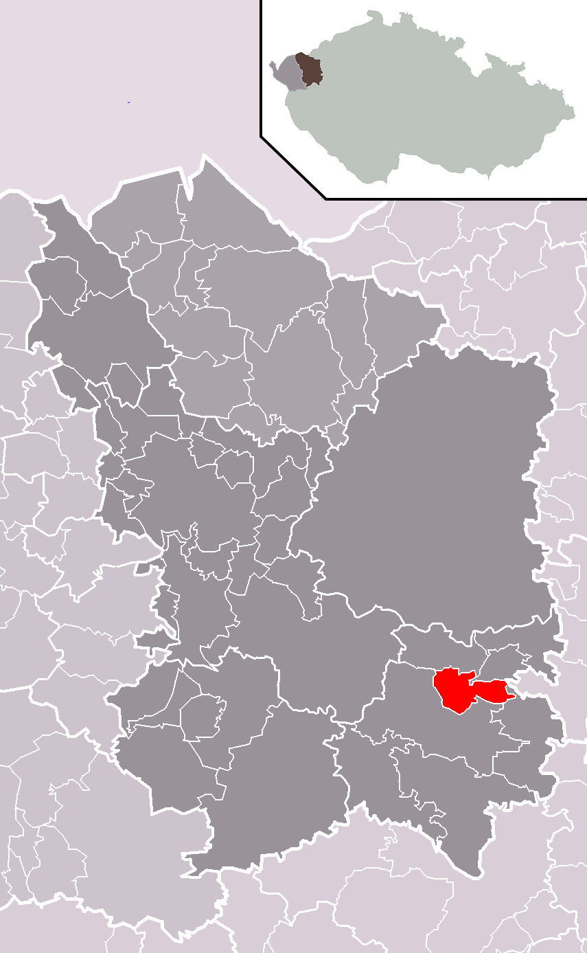 Location of Čichalov municipality within Karlovy Vary District and administrative area of Karlovy Vary as a Municipality with Extended Competence.